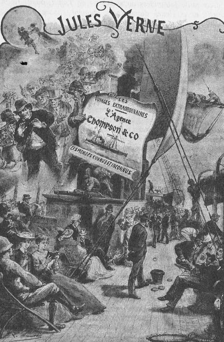 An illustration from Jules Verne's (or Michel Verne's) novel "The Thompson Agency and Co" drawn by Léon Benett.